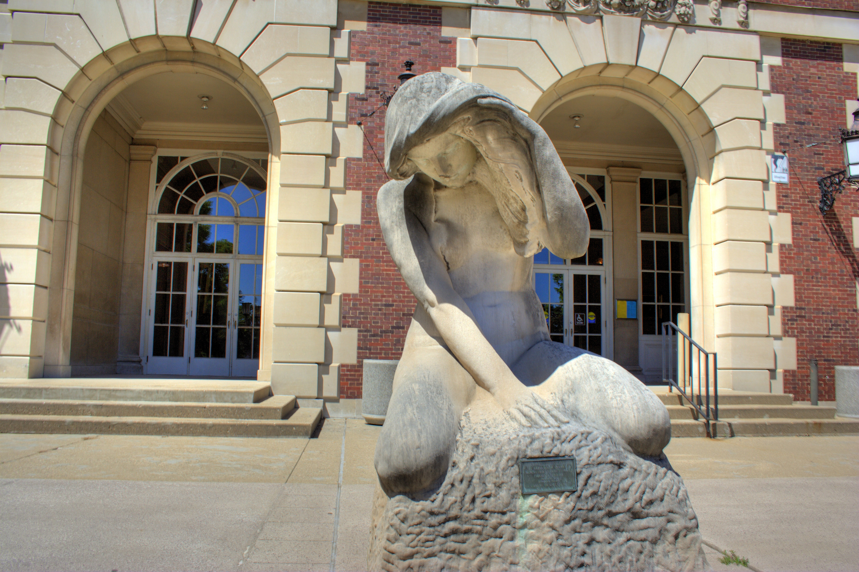 One of the pair of sculptures by Loredo Taft at the entrance to the Main Library on the University of Illinois at Urbana-Champaign campus. The pair of sculptures are titled "The Children of Prometheus" and this one is Pyrrha.